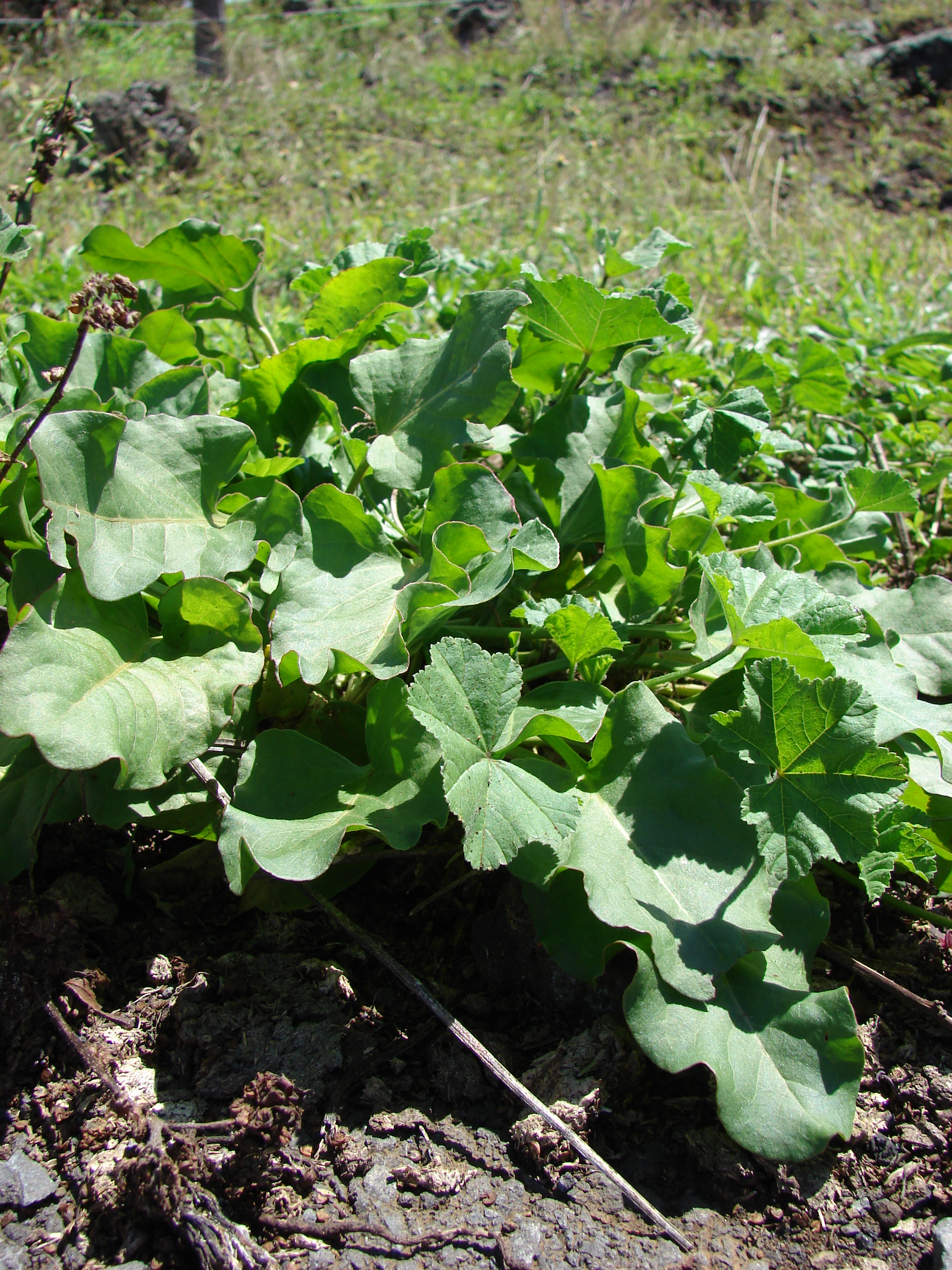 Emex spinosa (leaves). Location: Maui, Kanaio